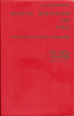 The cover of book The Rapid Method of Neo, a textbook of the constructed language of the same name, by Arturo Alfandari